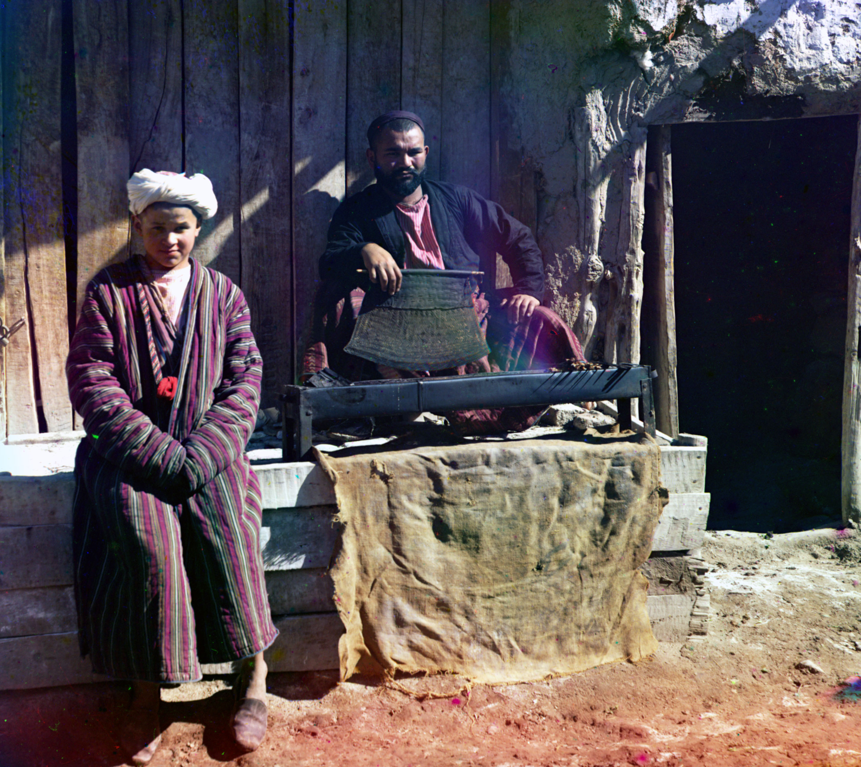 Kebab restaurant in Samarkand